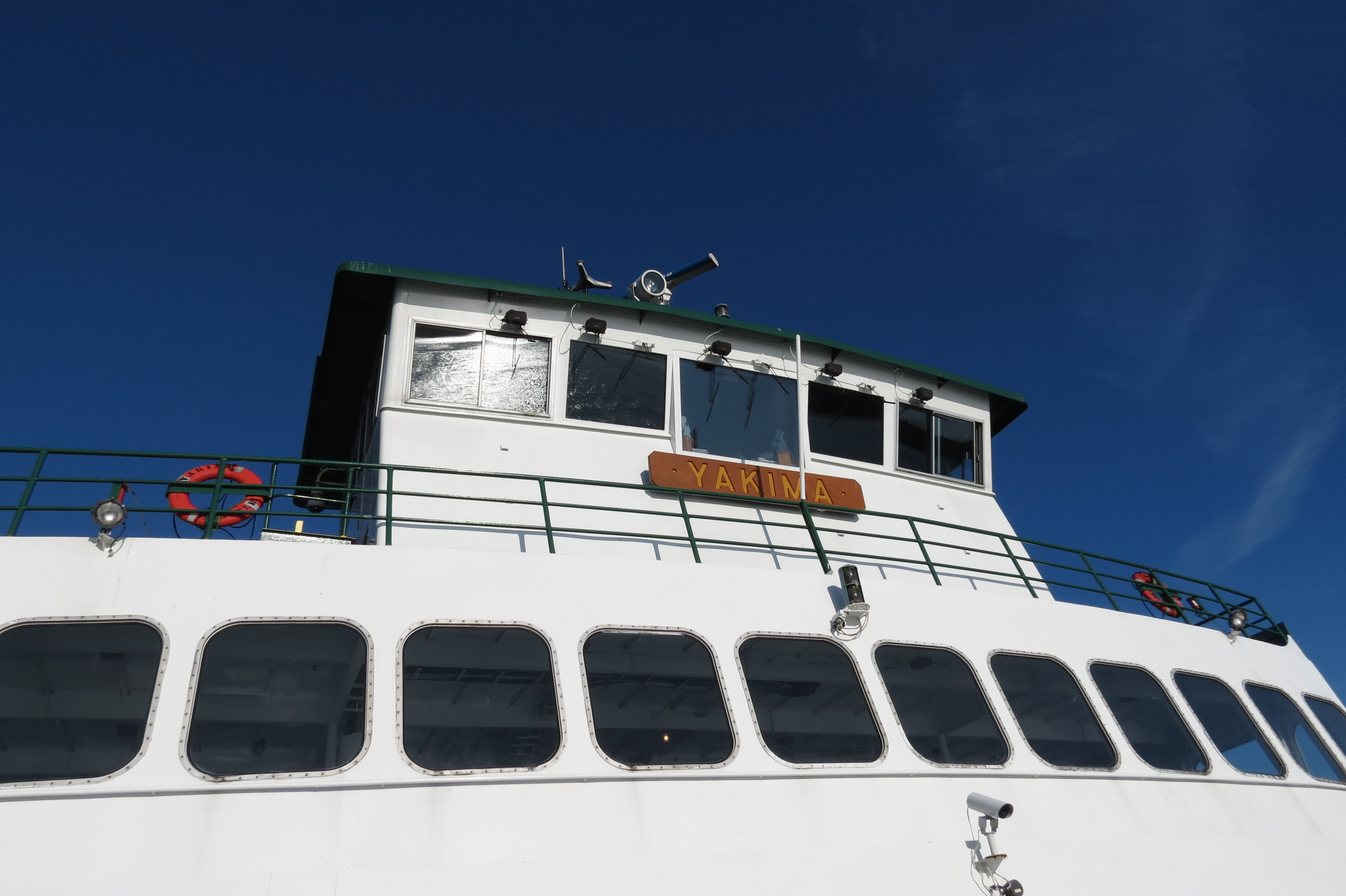 Pilothouse and superstructure of the Washington State Ferry Yakima.